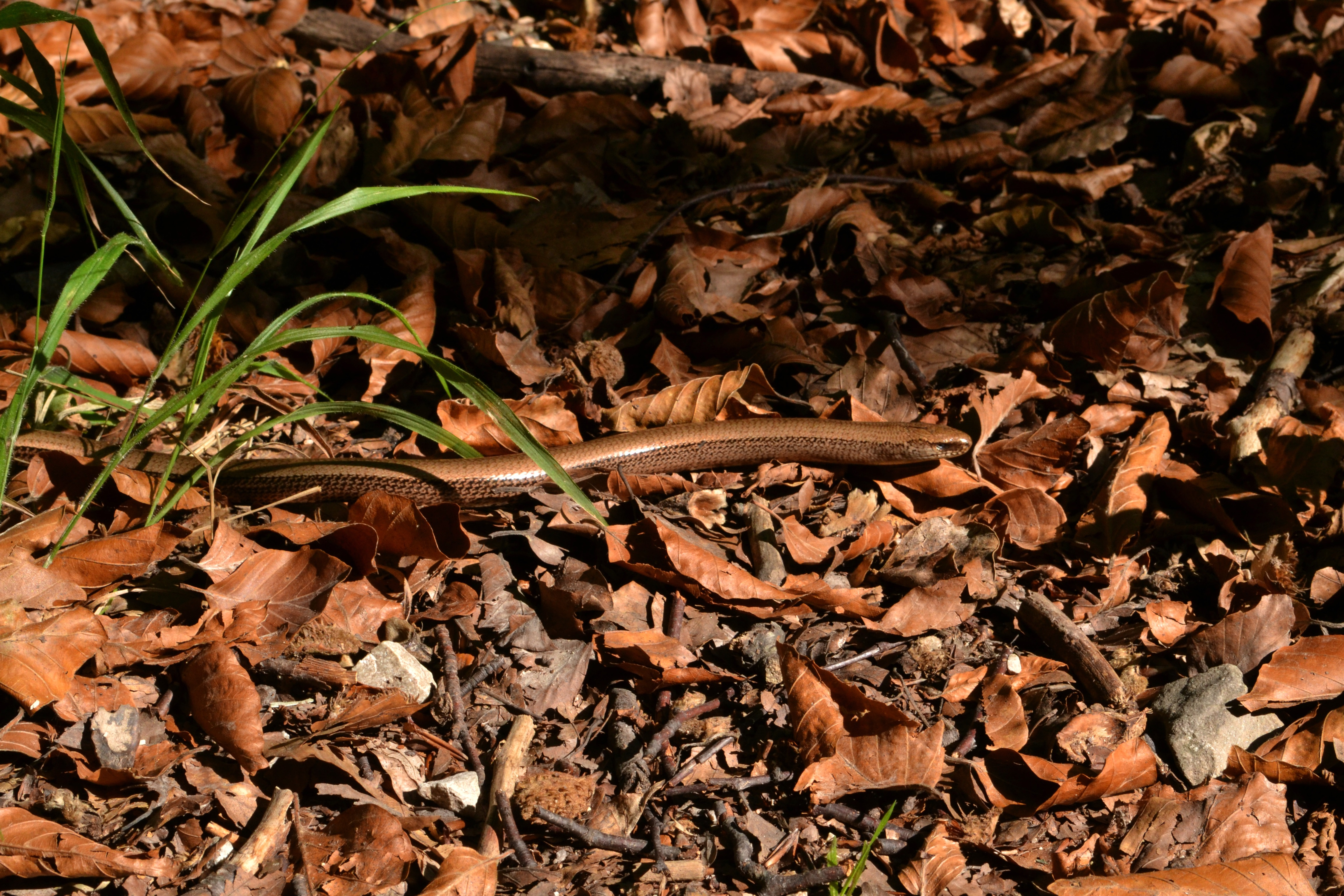 Brown reptile in Plitvice.